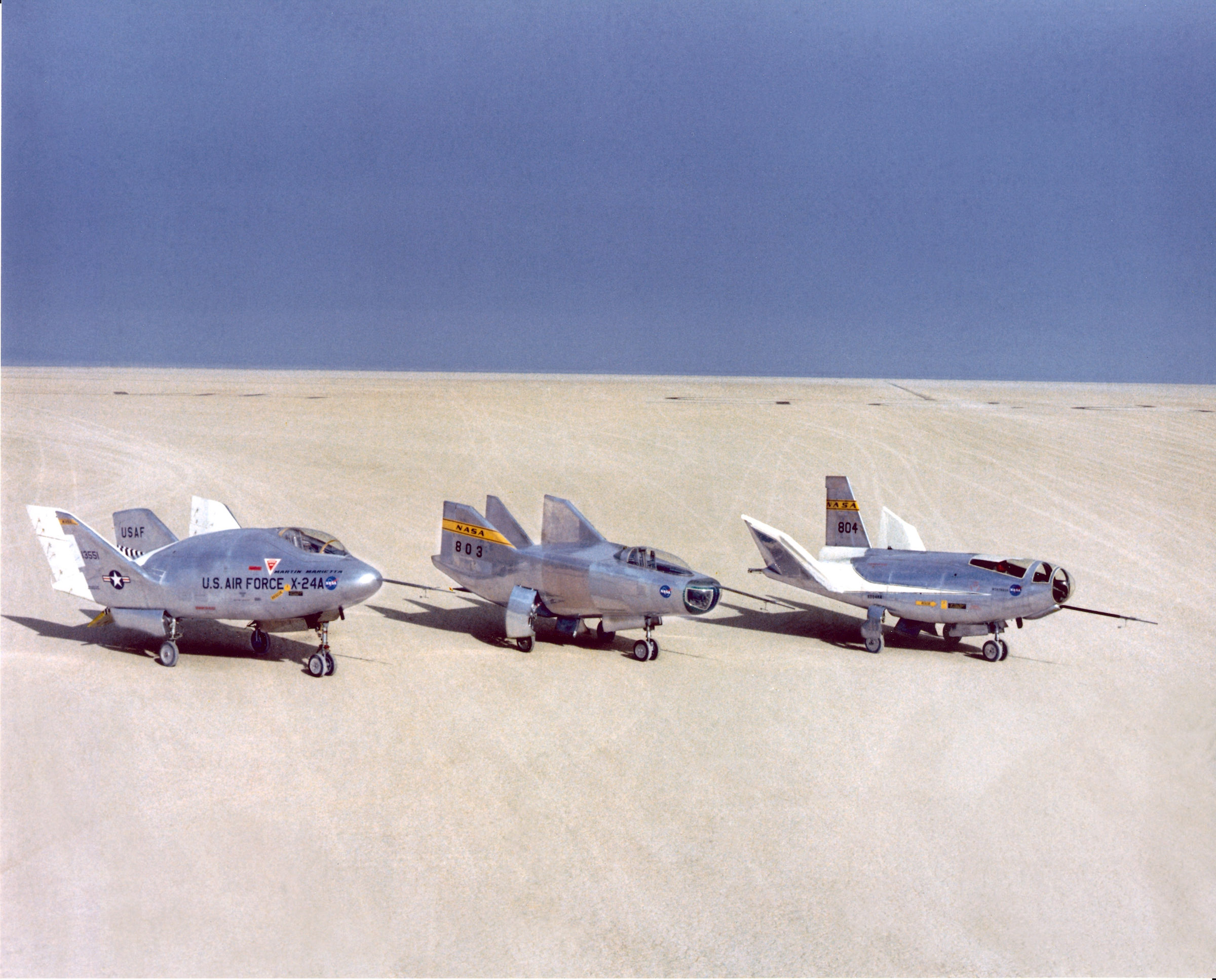 Lifting Bodies: (from left) X-24A, M2-F3 and HL-10 (original caption)